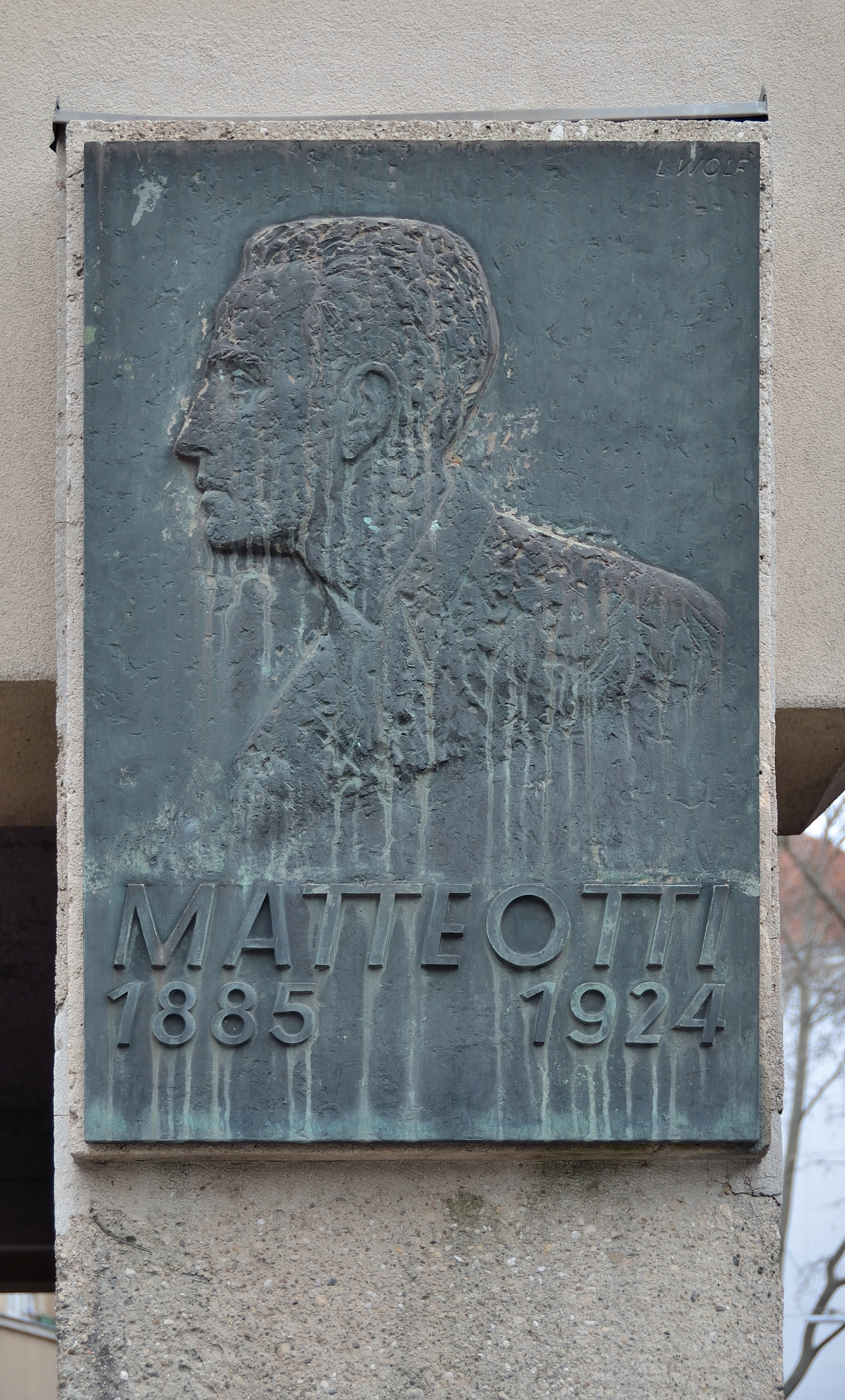 Plaque for Giacomo Matteotti at Matteottihof by Luise Wolf (acc. to signature).